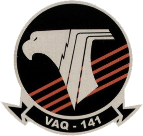 Insignia of the U.S. Navy Electronic Attack Squadron 141 (VAQ-141) "Shadowhawks". The insignia was approved on 19 June 1986.